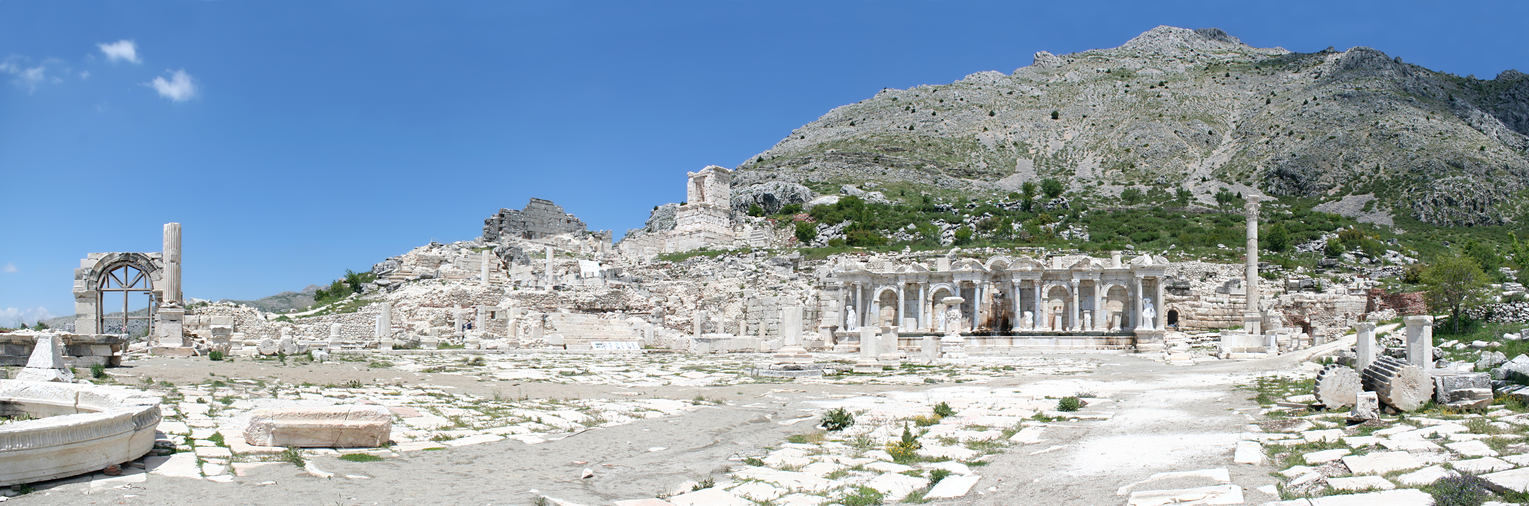 Sagalassos - Overview of Upper Agora